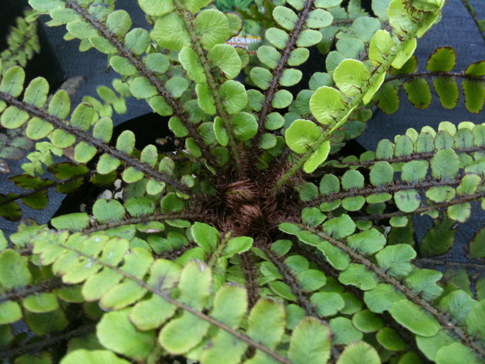 Plant positive ID as it is from a native plant nursery. Photo shows distinctive fronds radiating from centre of Blechnum fluviatile